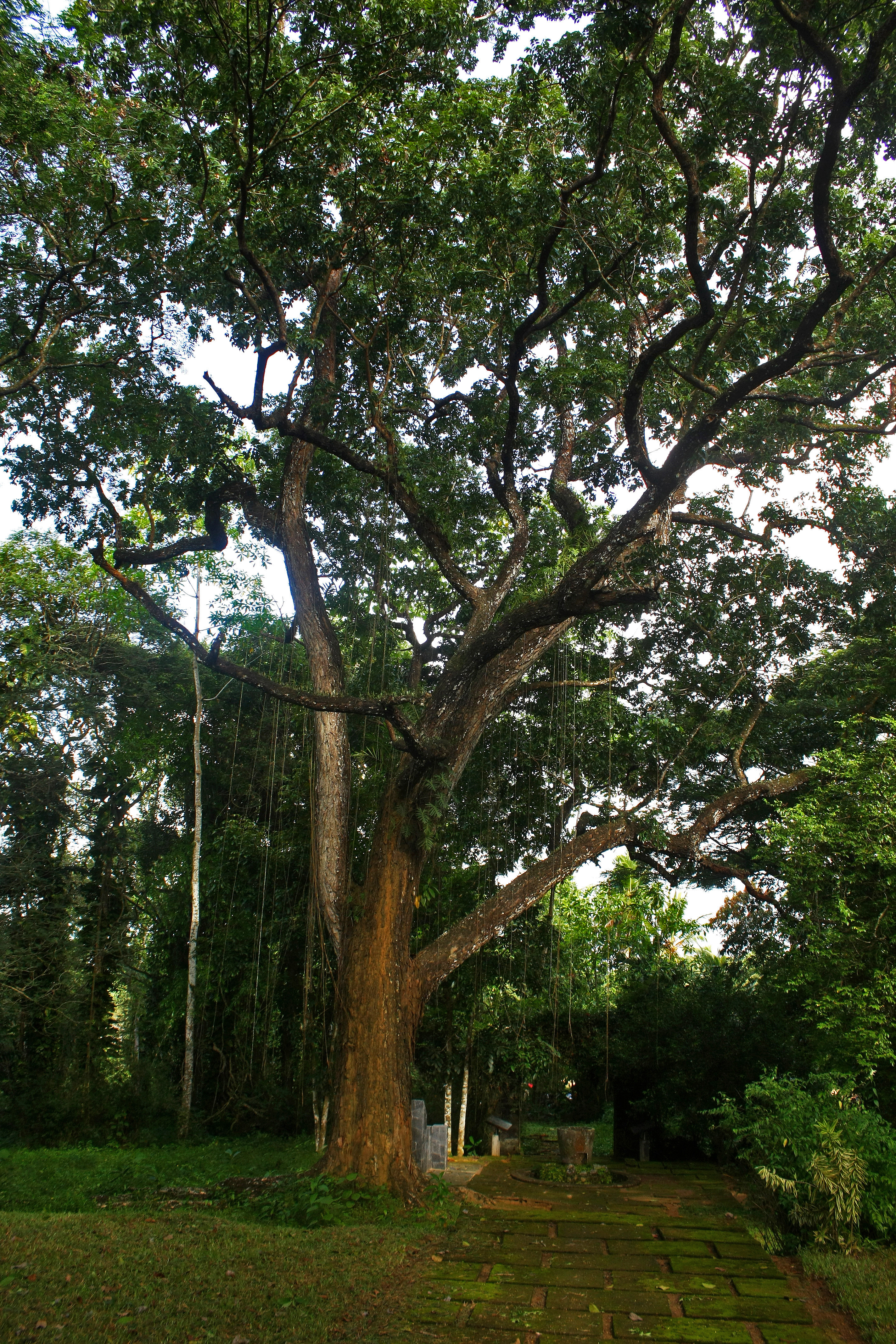 Che Guevara planted a mahogany tree in Yahala Kele rubber estate in Moragahahena, Horana, Sri Lanka on August 8, 1959